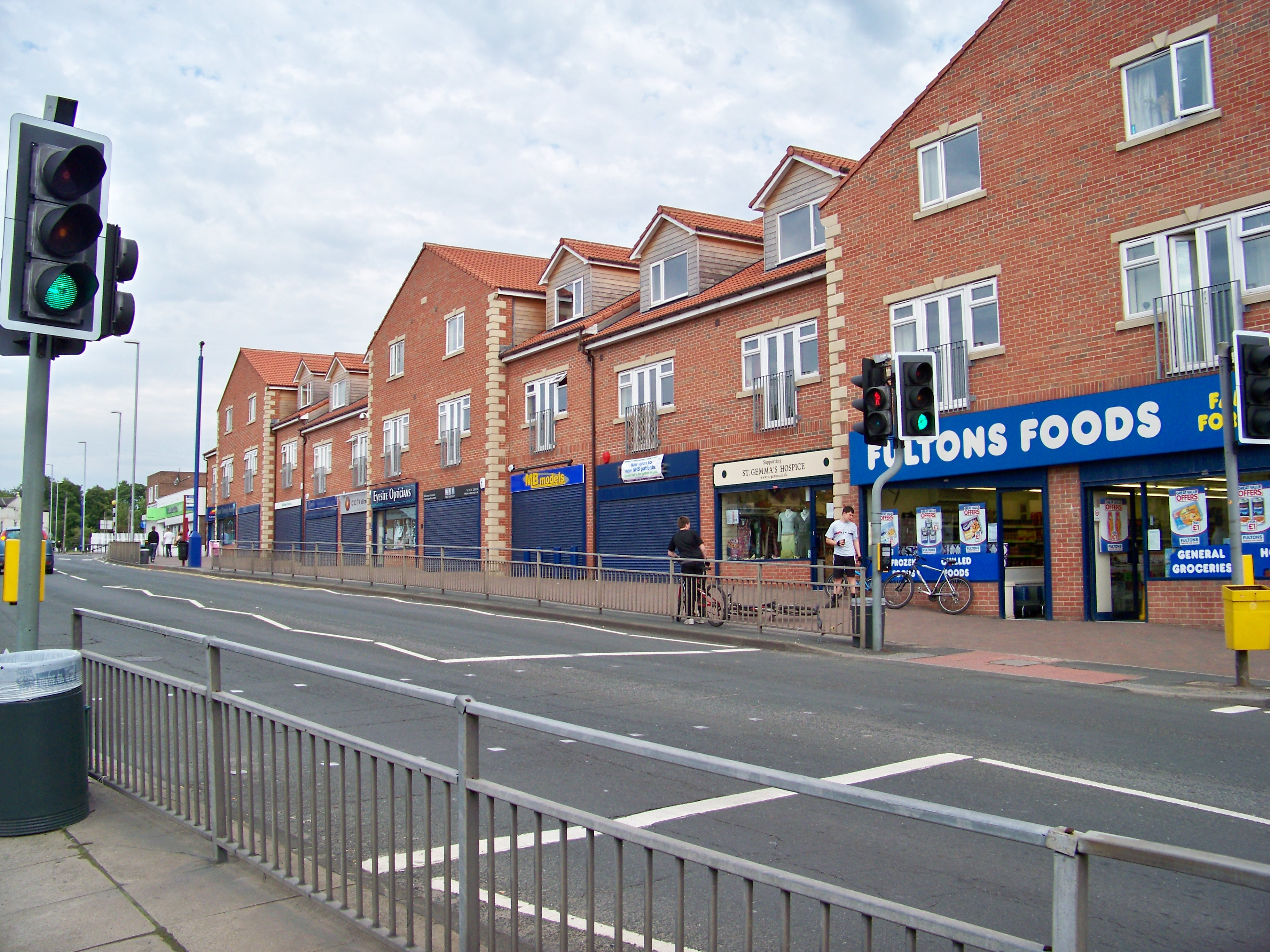 Shops on A63 Selby Road (looking East on southern parades), Halton, Leeds, West Yorkshire, England. Taken on the afternoon of Saturday 23rd May 2009.